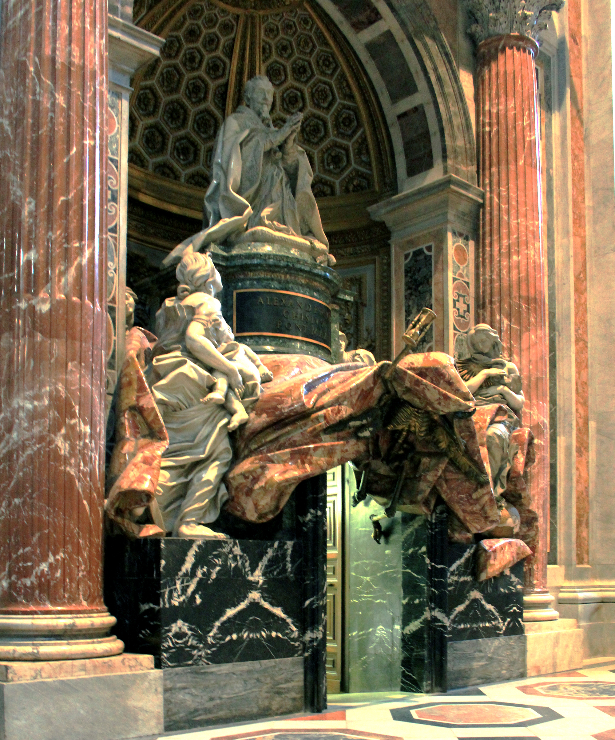 Interior of St. Peter's Basilica in Vatican City, Rome